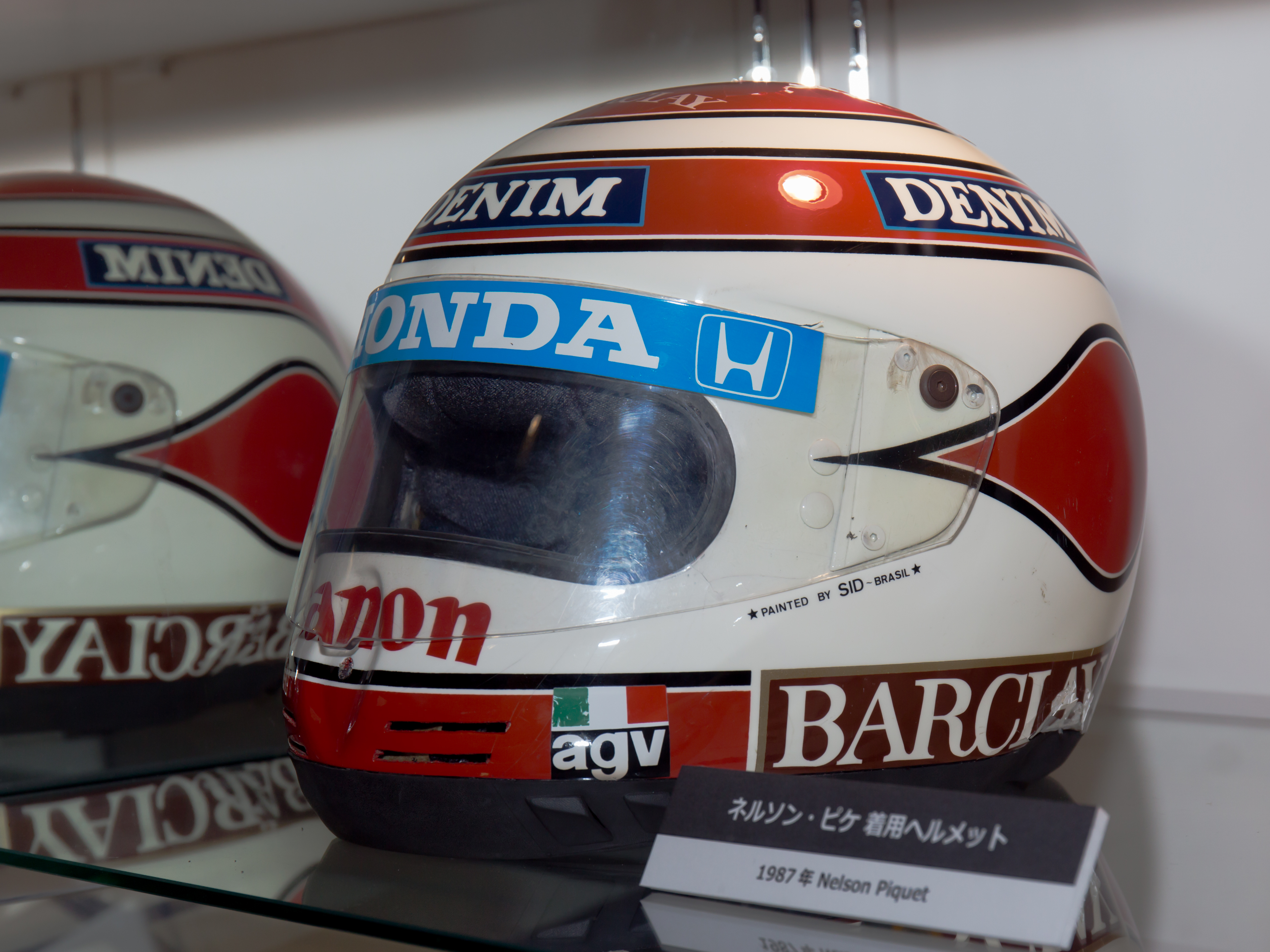 Nelson Piquet's 1987 helmet